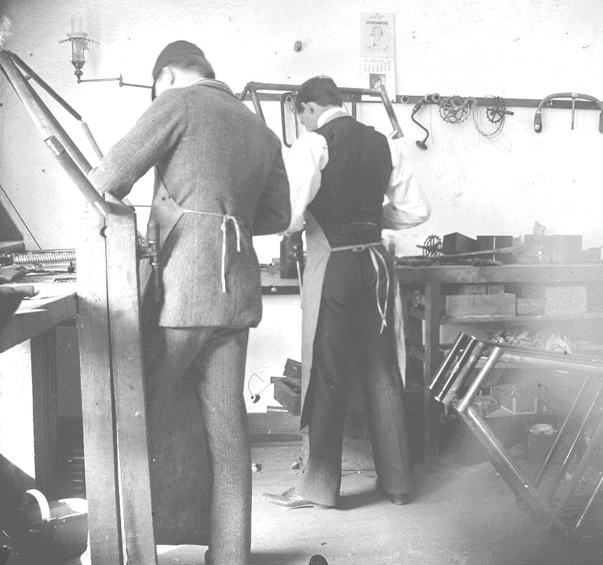 Orville Wright (right) and Edwin H. Sines working in the Wright brothers bicycle shop.